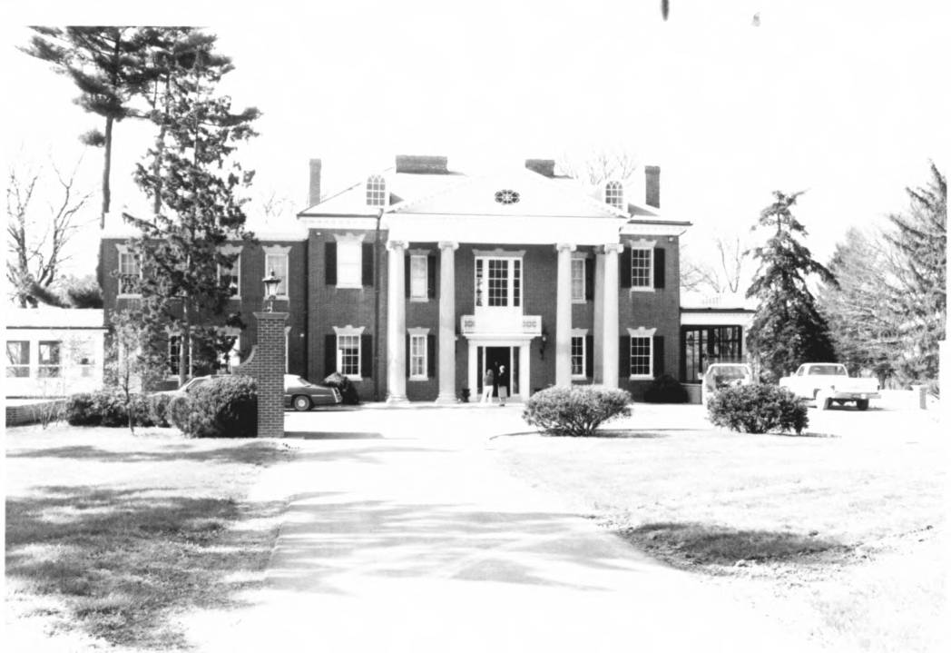 Front facade of Boxhill (Louisville) mansion.